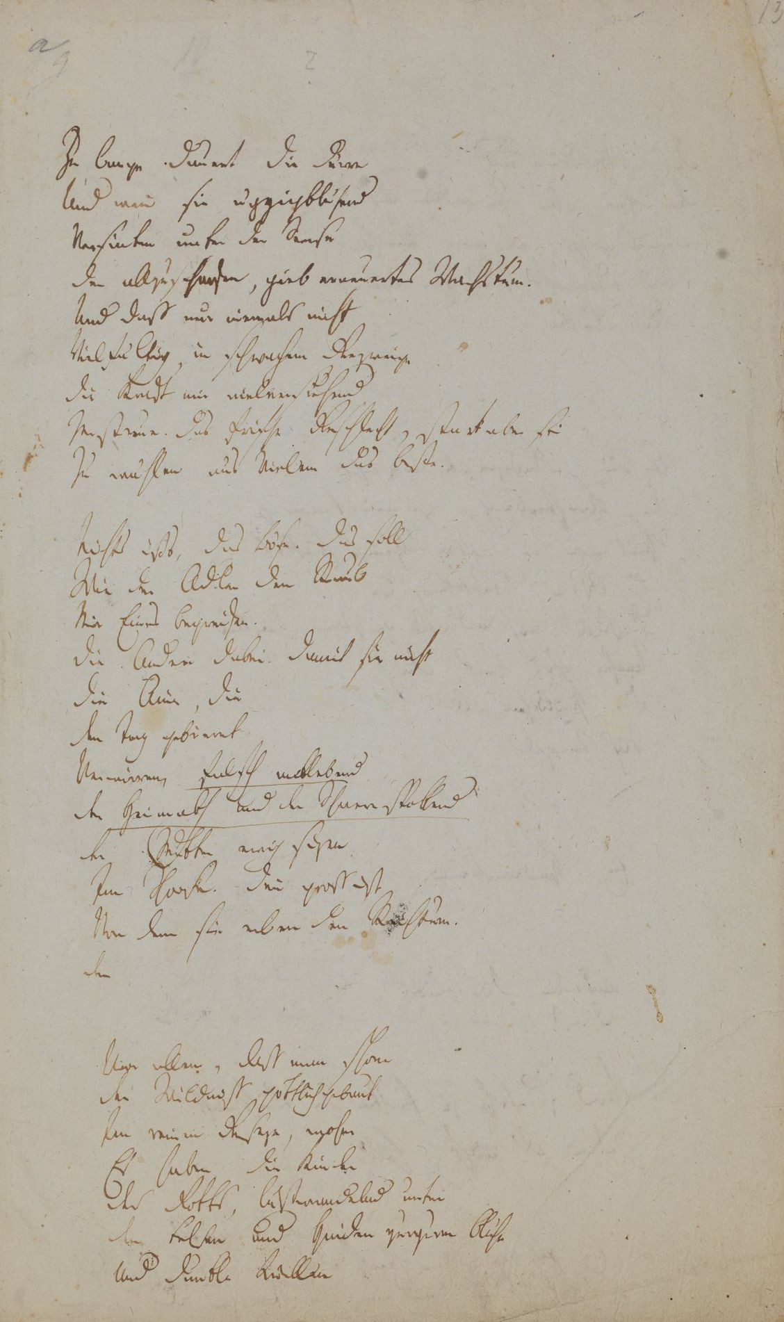 Manuscript by Friedrich Hölderlin "An die Madonna" page 5